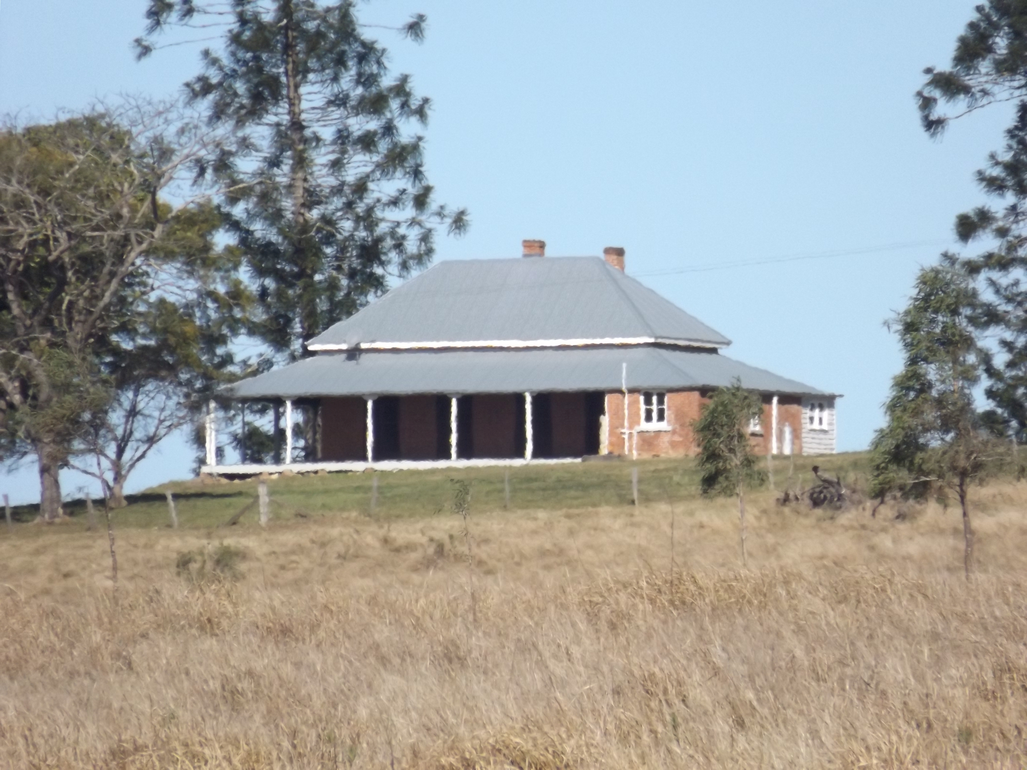 Photo of Kilcoy Homestead at Winya, Somerset Region, Queensland, Australia.